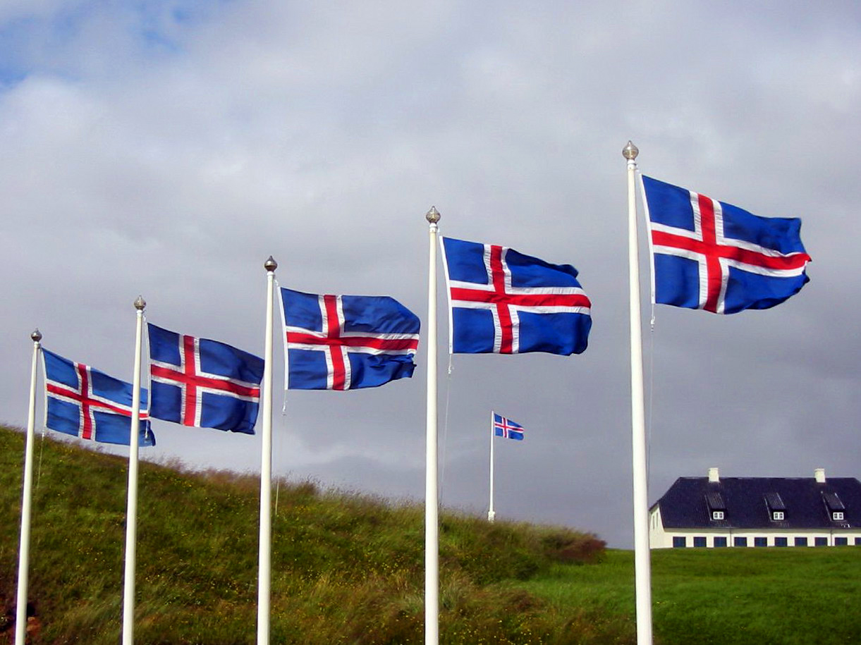 Usable with attribution and link to